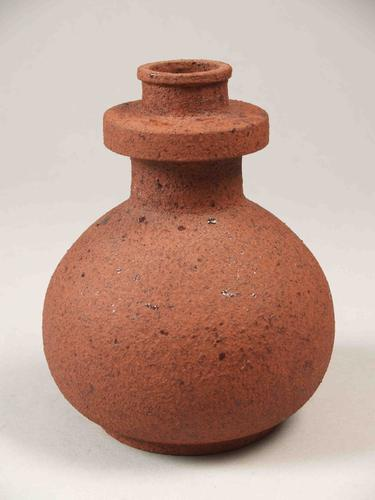 Vase covered with red slip by Jan de Rooden 1961